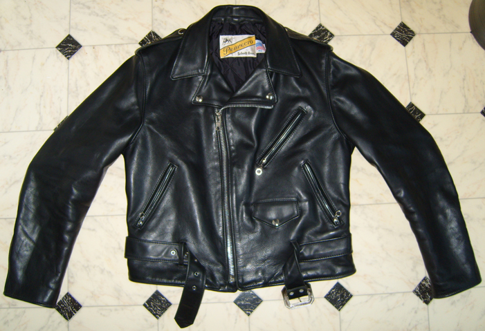 2007 613 Schott Perfecto